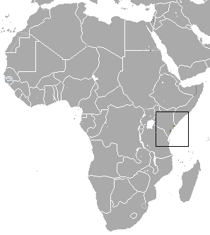 Golden-rumped Elephant Shrew (Rhynchocyon chrysopygus) range